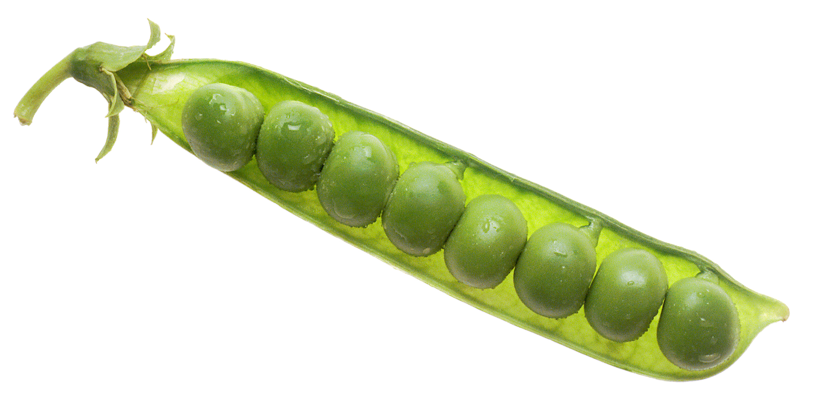 Title Peas Description A single pea pod cut lengthwise to see the pea inside. Topics/Categories Food and Drink Type Color, Photo Source National Cancer Institute